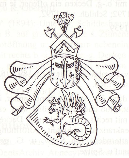 Coat of Arms of the german family „von Puttkamer“